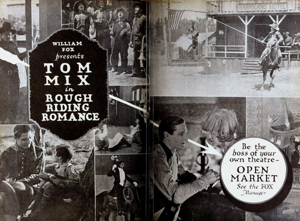 Advertisement for the American western film Rough-Riding Romance (1919) with Tom Mix and Juanita Hansen, on pages 10 and 11 of the August 30, 1919 Exhibitors Herald.